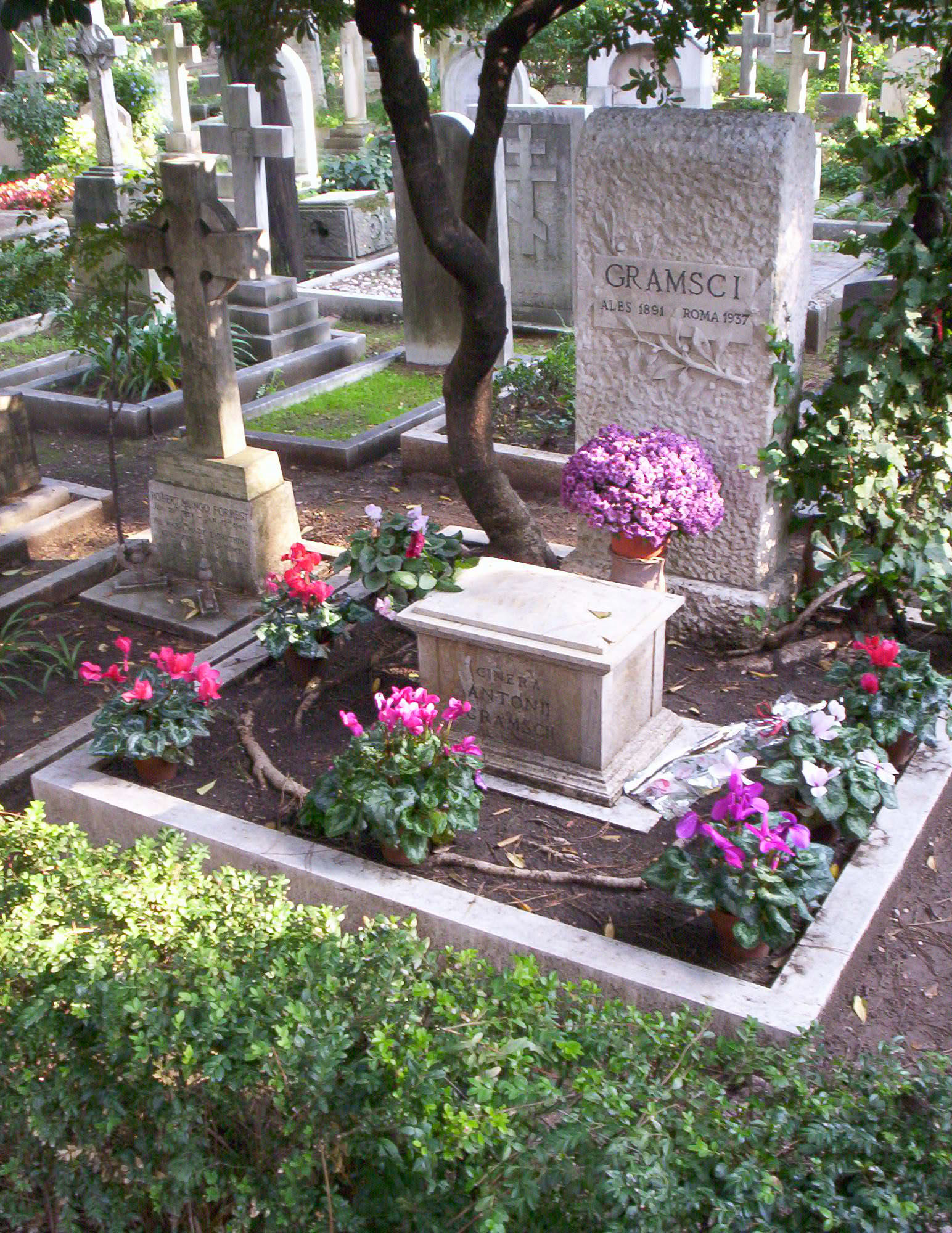 the grave of Antonio Gramsci in Rome.